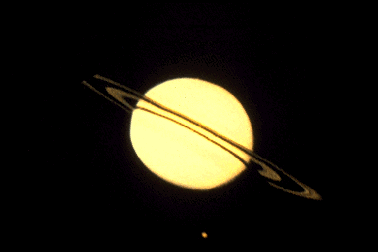 Pioneer 11 image of Saturn.